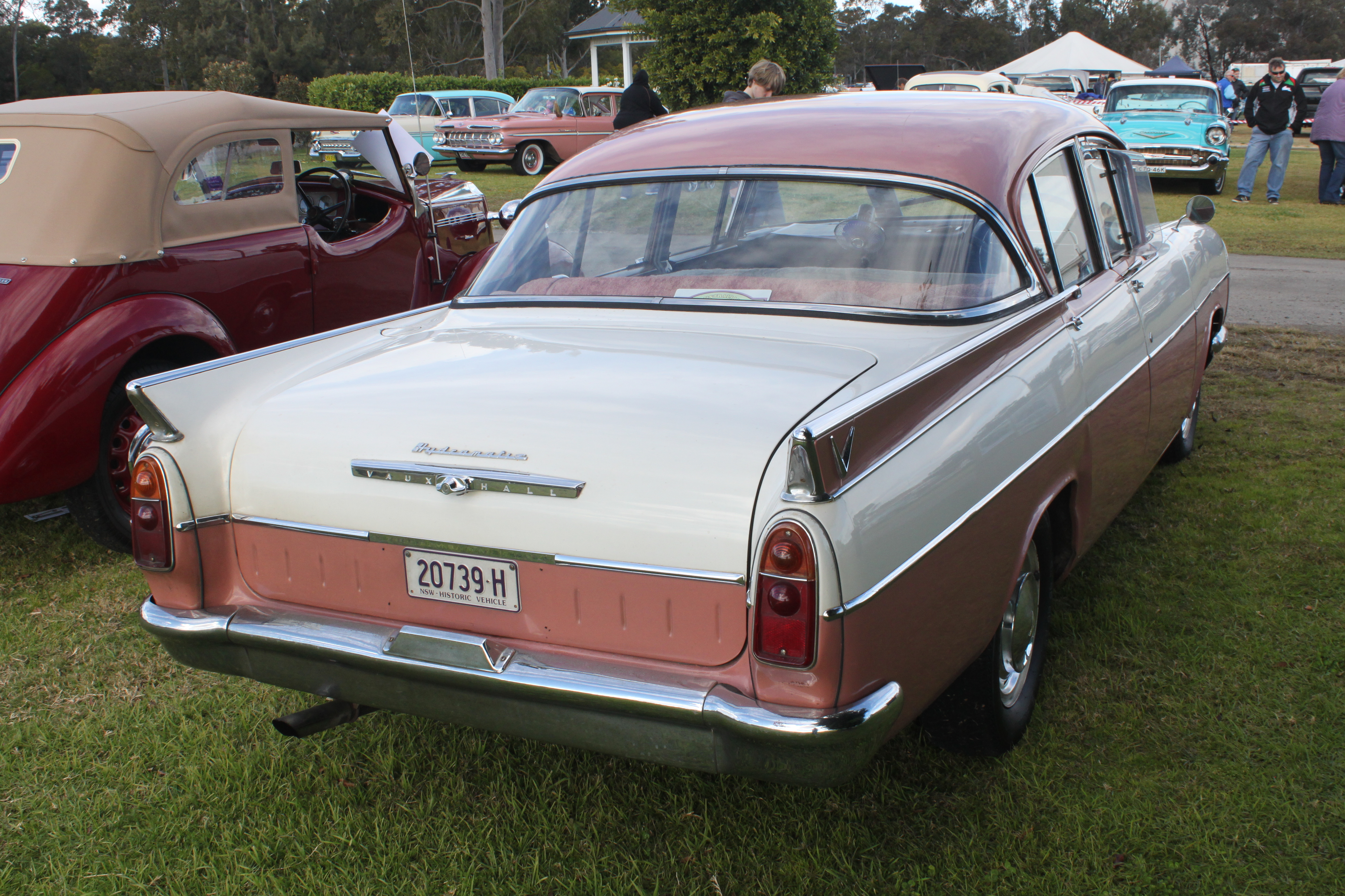 GM Display Day, Penrith Panthers, NSW July 2015